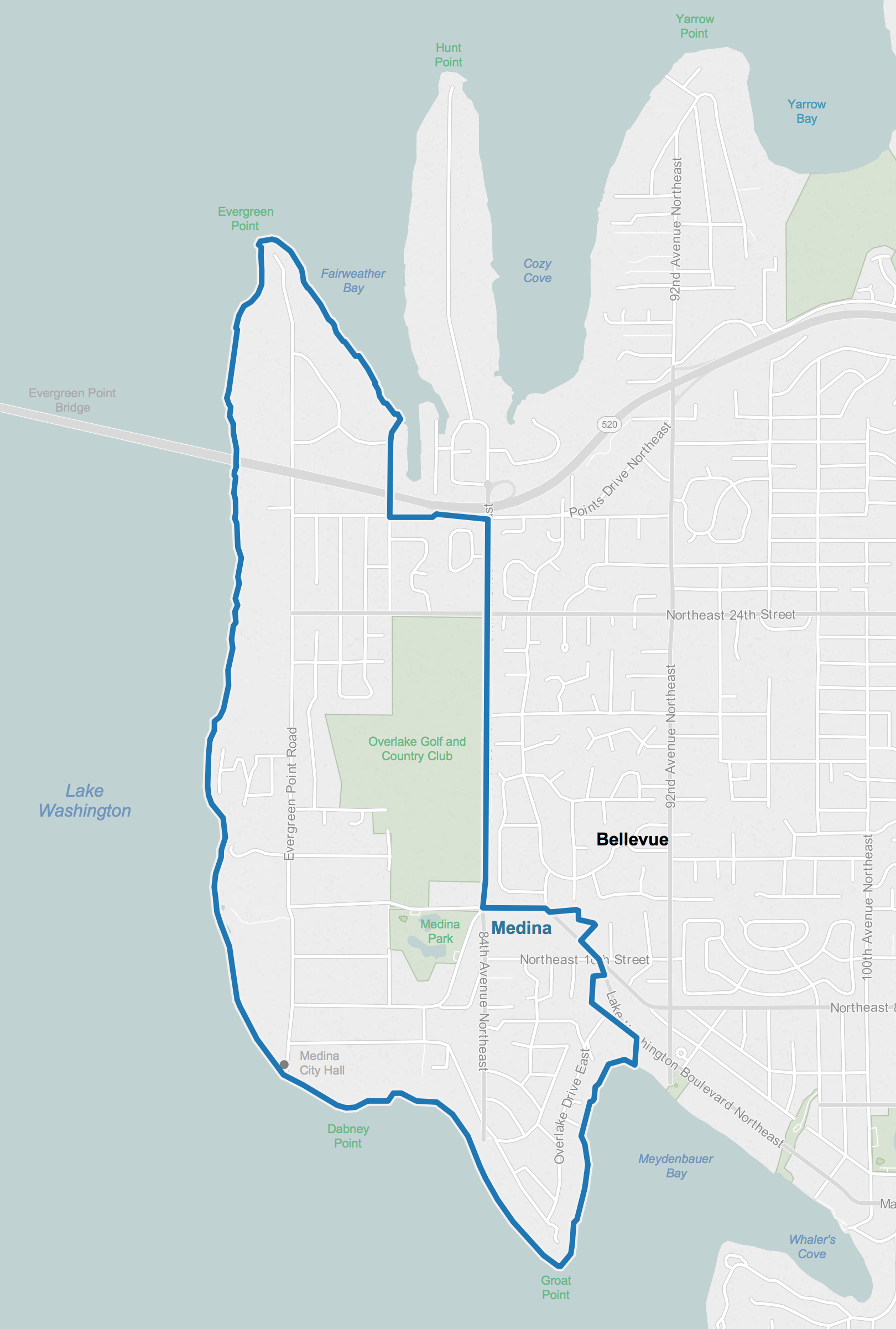 Map of city limits of Medina, Washington. Made with Tableau.